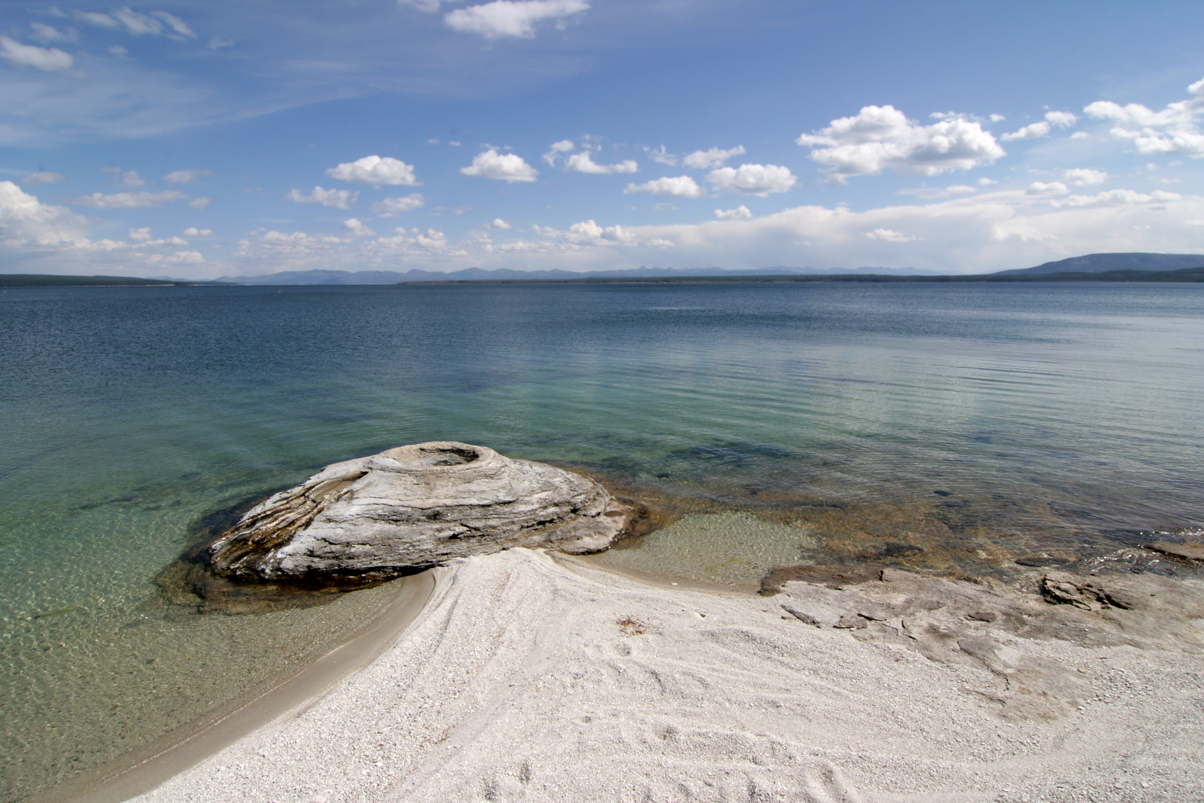 Geysirkegel am Ufer des Yellowstone Lakes im West Thumb Geyser Basin / Yellowstone Nationalpark / USA